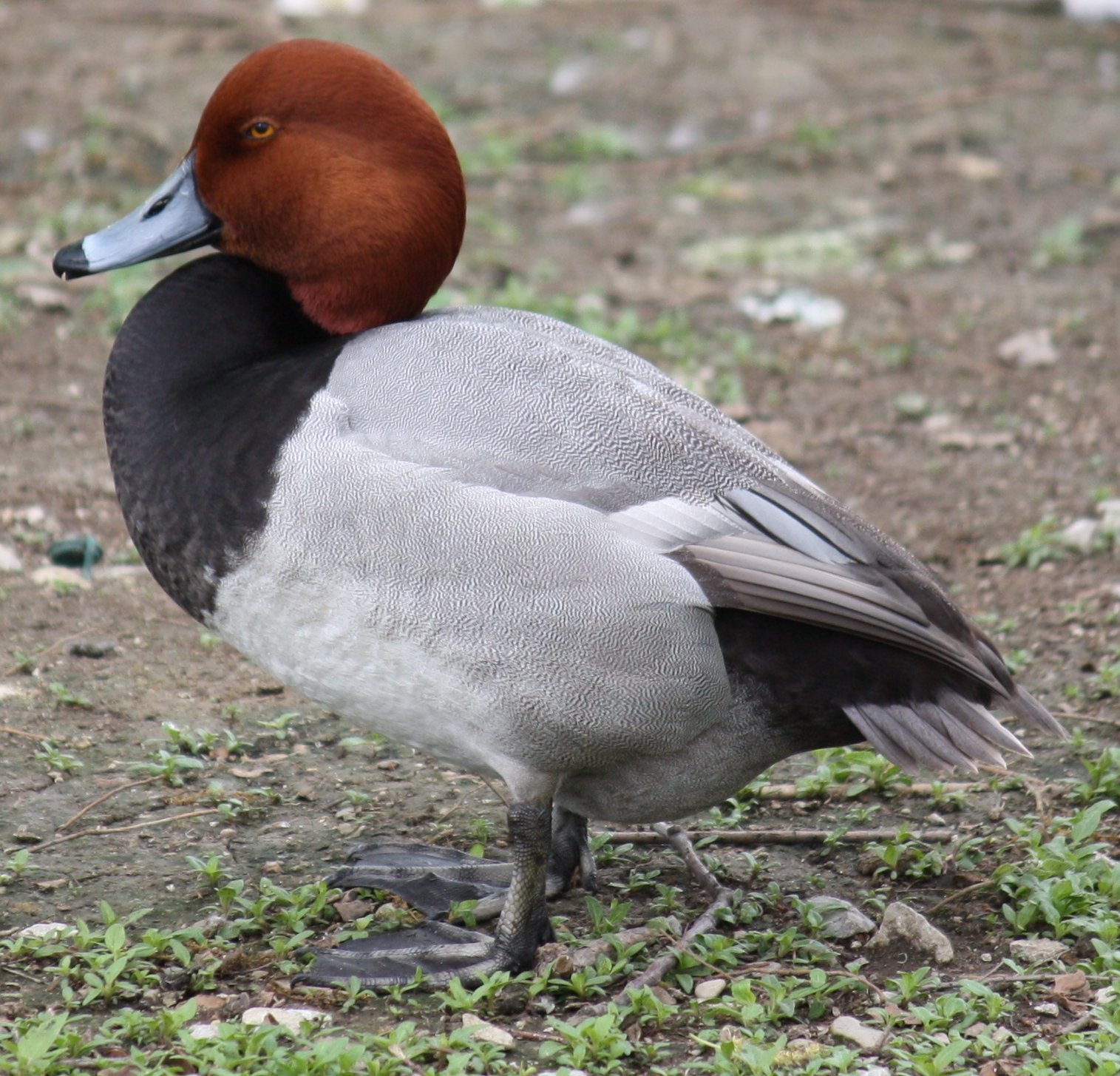 Redhead Duck Aythya americana at Cincinnati Zoo